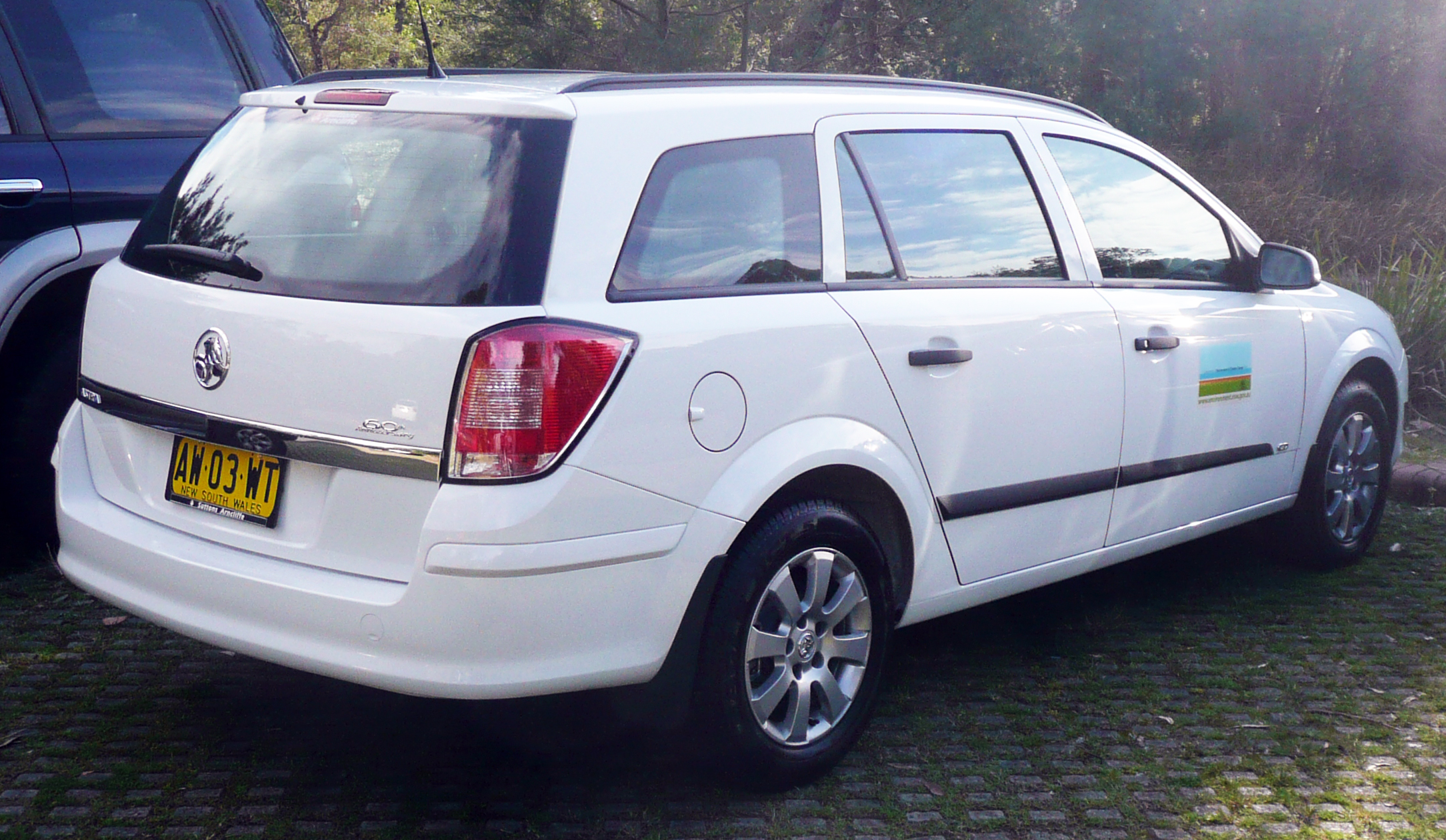 2008 Holden Astra (AH MY08.5) CD 60th Anniversary station wagon. Photographed in Audley, New South Wales, Australia.